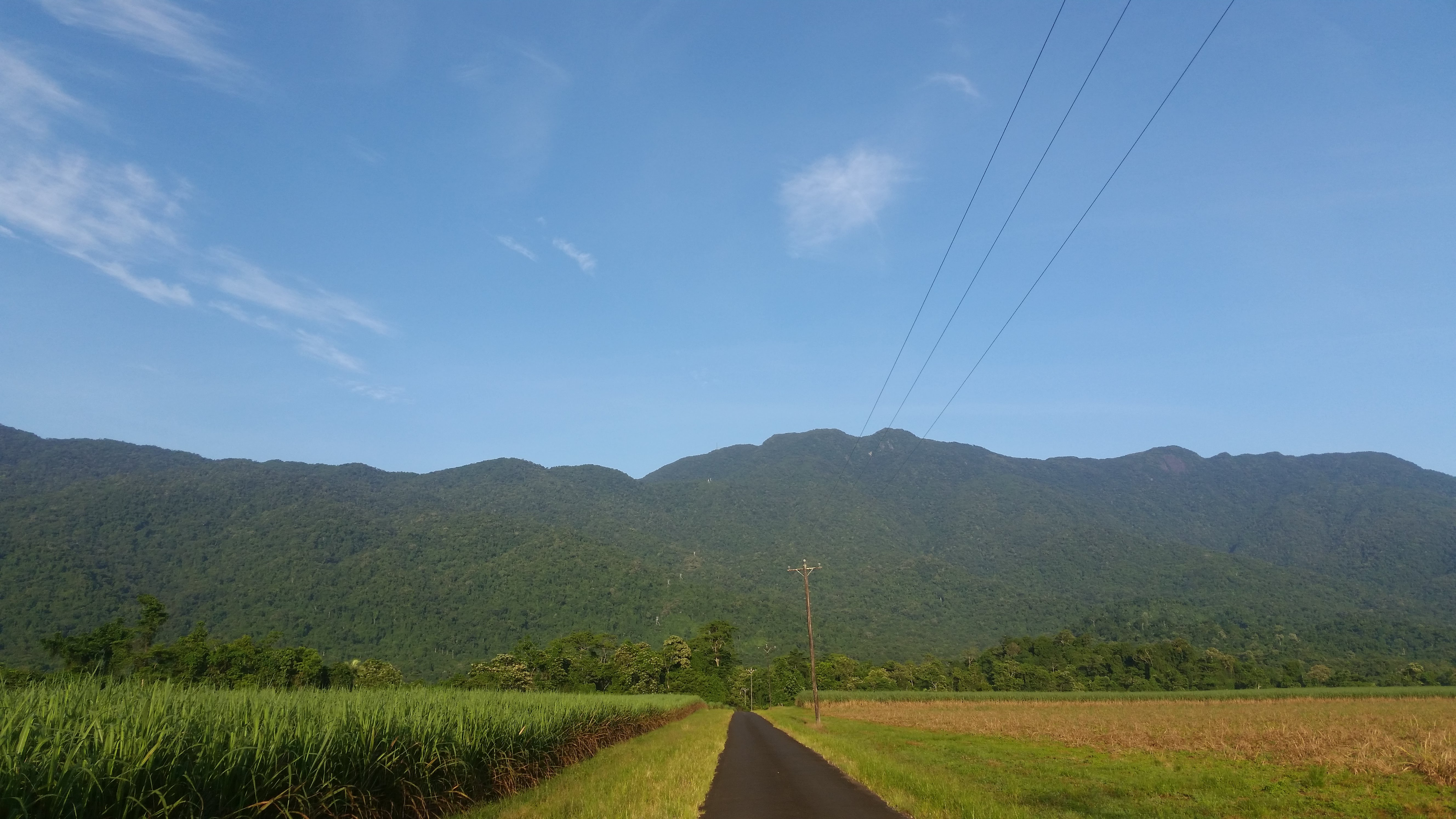 A photo of the Mount Bellenden Ker range centered on the summit and showing the aerial cableway taken from the east at the intersection of the Bruce Hwy and Telecom Rd. The foreground includes sugarcane fields divided by a small road.